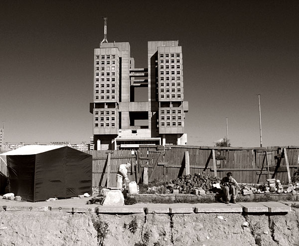 Object: So called "House of the Soviets" in Kaliningrad Original description: The remains of the king's castle were demolished several decades ago to clear the way for this atrocity. This was to be the new government building. The building has been like this for over 15 years. Now archaelogical digs are going on right around the foundations of the 12th century castle. We saw a well from that time that was still functioning. Comment by User:Kneiphof: The construction of so called "House of the Soviets" began in 1970 on the place where old castle of Königsberg stood before which was destroyed in late '60s due to idealogical reasons (it was considered to be "the symbol of Prussian militarism and fascism" by Soviet authority). House of the Soviets (Дом Советов) was planned to become the center of adminisration of Oblast Kaliningrad and city Kaliningrad itself. The works stopped in late '80 due to economical crisis. Now plans exist to complete House of the Soviets as an business centre.